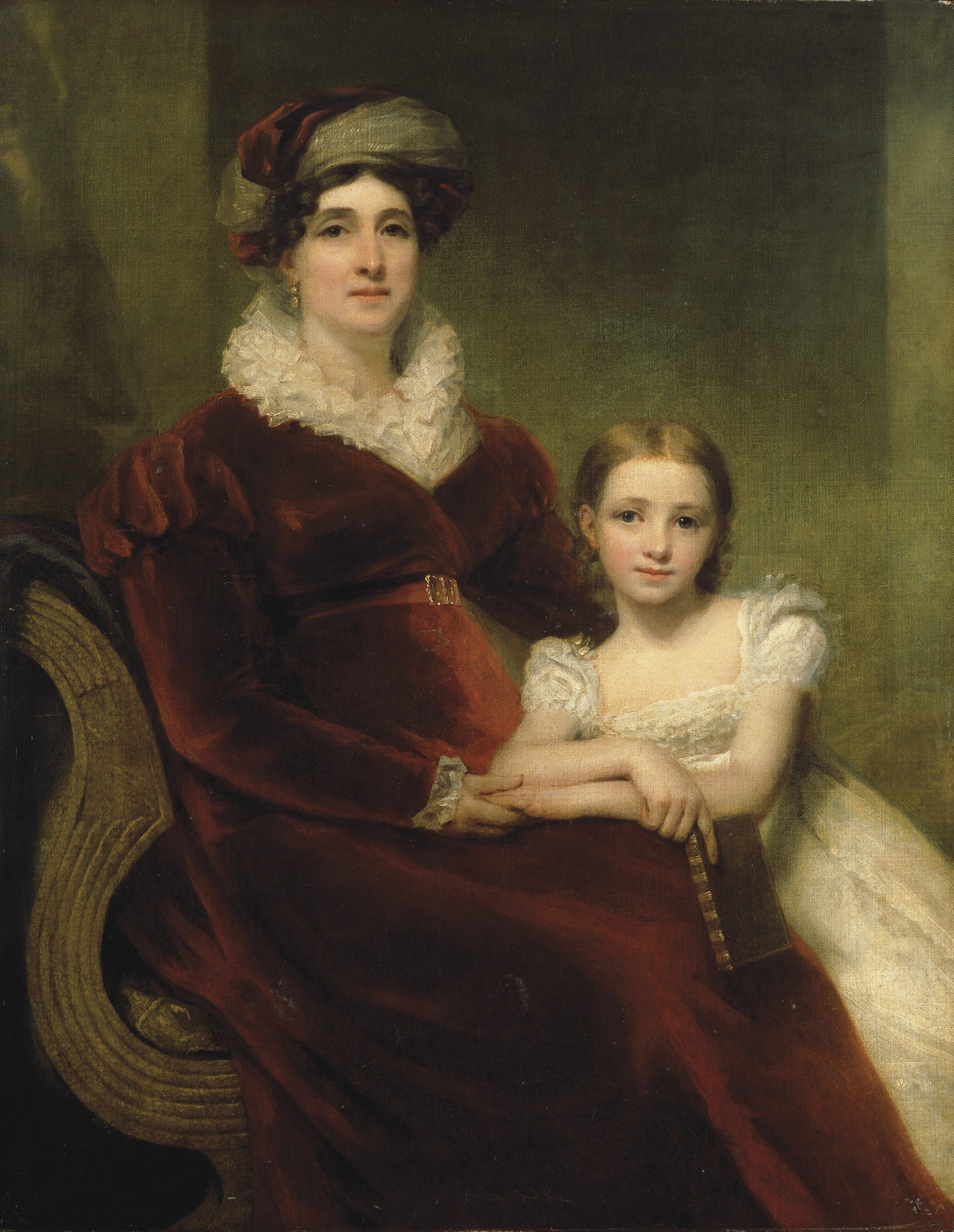 Double portrait of Mrs Alexander Allan, three-quarter-length, seated in a crimson velvet dress with white ruff and cuffs and a crimson and white turban, with her granddaughter, Matilda, in a white lace dress holding a leather bound book